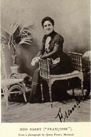 Robertine Barry (Francoise) by Query Freres, Montreal